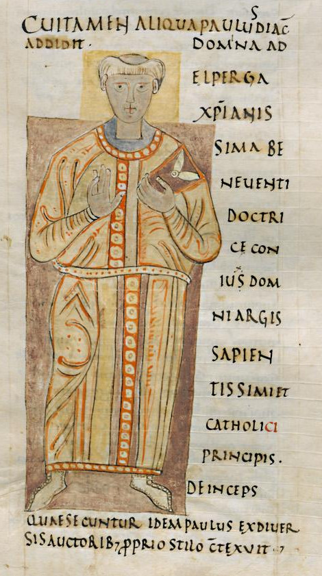 Portrait of Paulus Diaconus. Detail of fol. 34r of Laurentian Plut. 65.35. [Huc usque historiam Eutropius composuit] cui tamen aliqua Paulus Diaconus addidit [iubente] Domina Adelperga Christianissima Beneventi Doctrice coniusx Domni Argis Sapientissimi & Catholici Principis. Deinceps quae secuntur, idem Paulus ex diversis auctoribus proprio stilo contexuit. Literature: Francisci Antonii Zachariæ Societatis Jesu Excursus litterarii per Italiam ab anno 1742 ad annum 1752. Volumen 1., ex Remondiniano Typographio, 1754, p. 219.